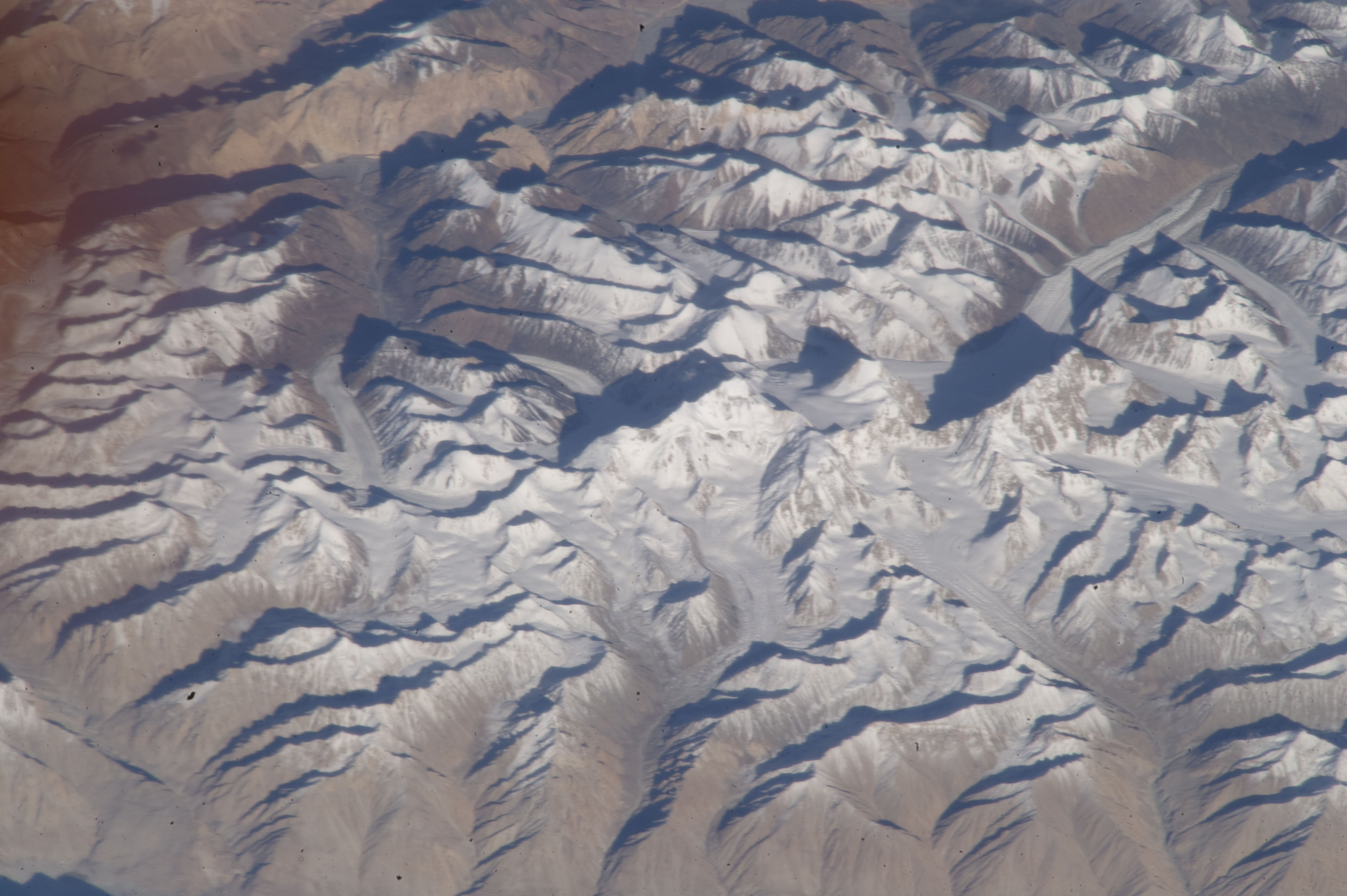 One of the Expedition 33 crew members aboard the International Space Station exposed this image of Saser Muztagh, in the Karakoram Range of the Kashmir region of India centered 34.9 degrees north latitude and 77.8 degrees east longitude. The view is in mid-afternoon light looking northeastward from a nadir point in north central Pakistan about 100 miles west of Lahore.